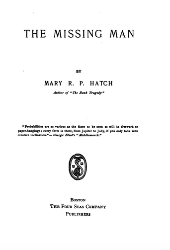 The Missing Man, by Mary R. Platt Hatch